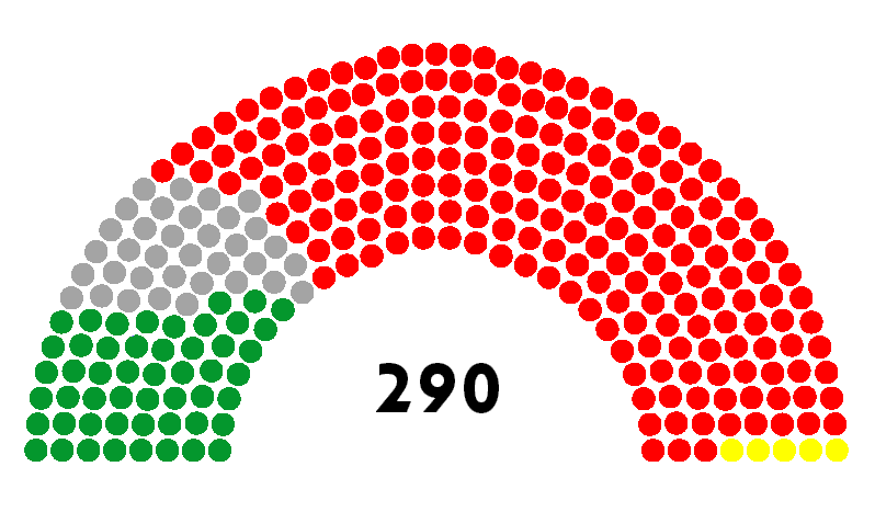 Parliament of Iran seating